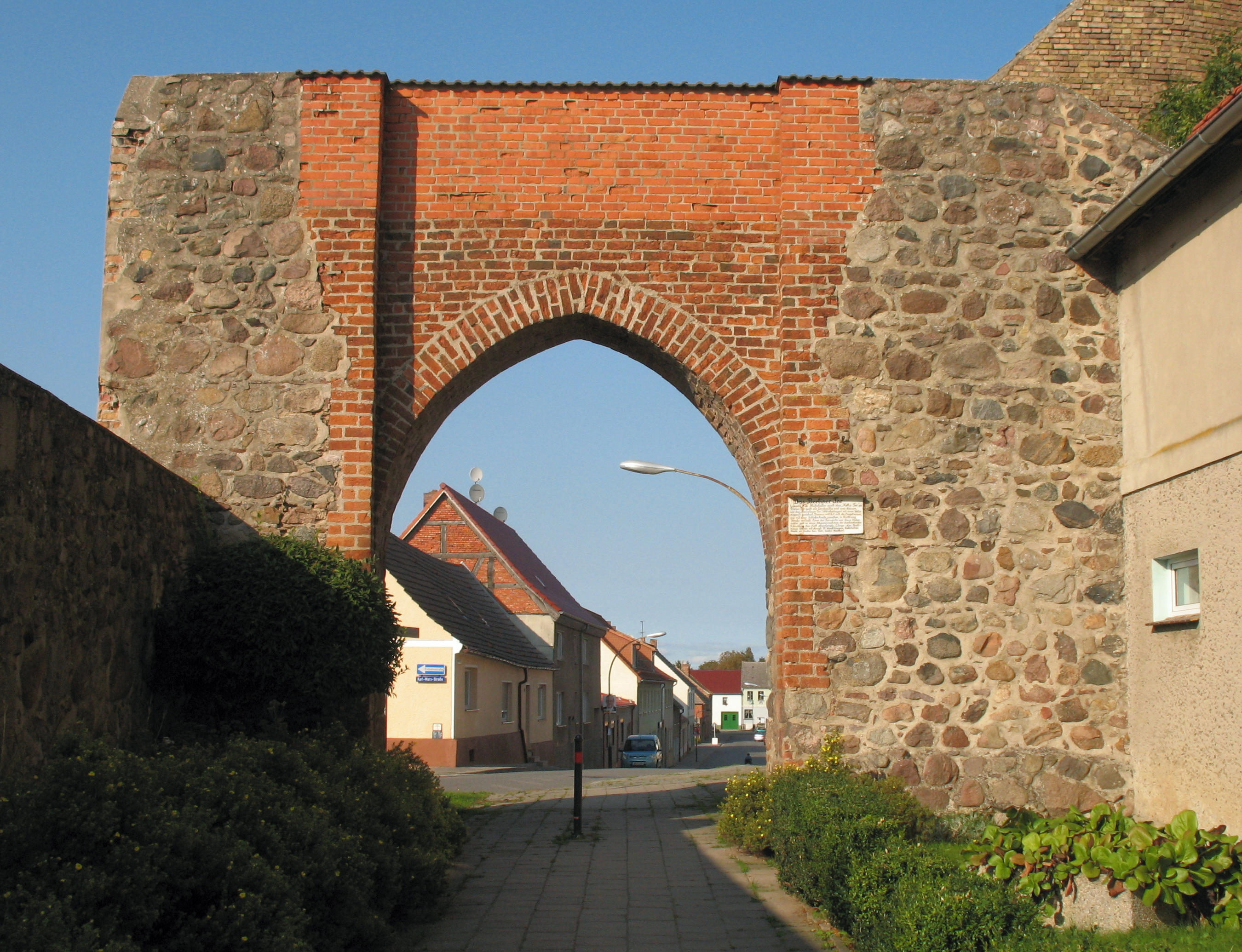 Town gate in Nordwestuckermark-Fürstenwerder in Brandenburg, Germany